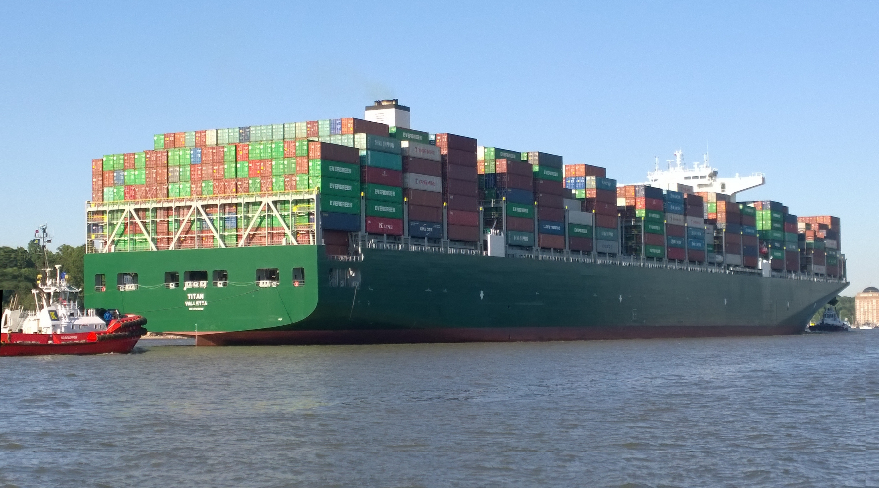 New container vessel Titan on the river Elbe with the port of destination in Hamburg in July 2016